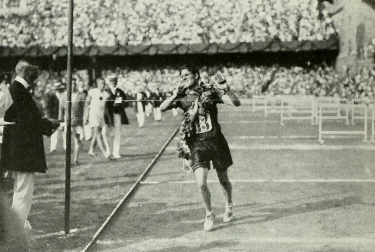 Kenneth McArthur winning the Marathon at the 1912 Summer Olympics.